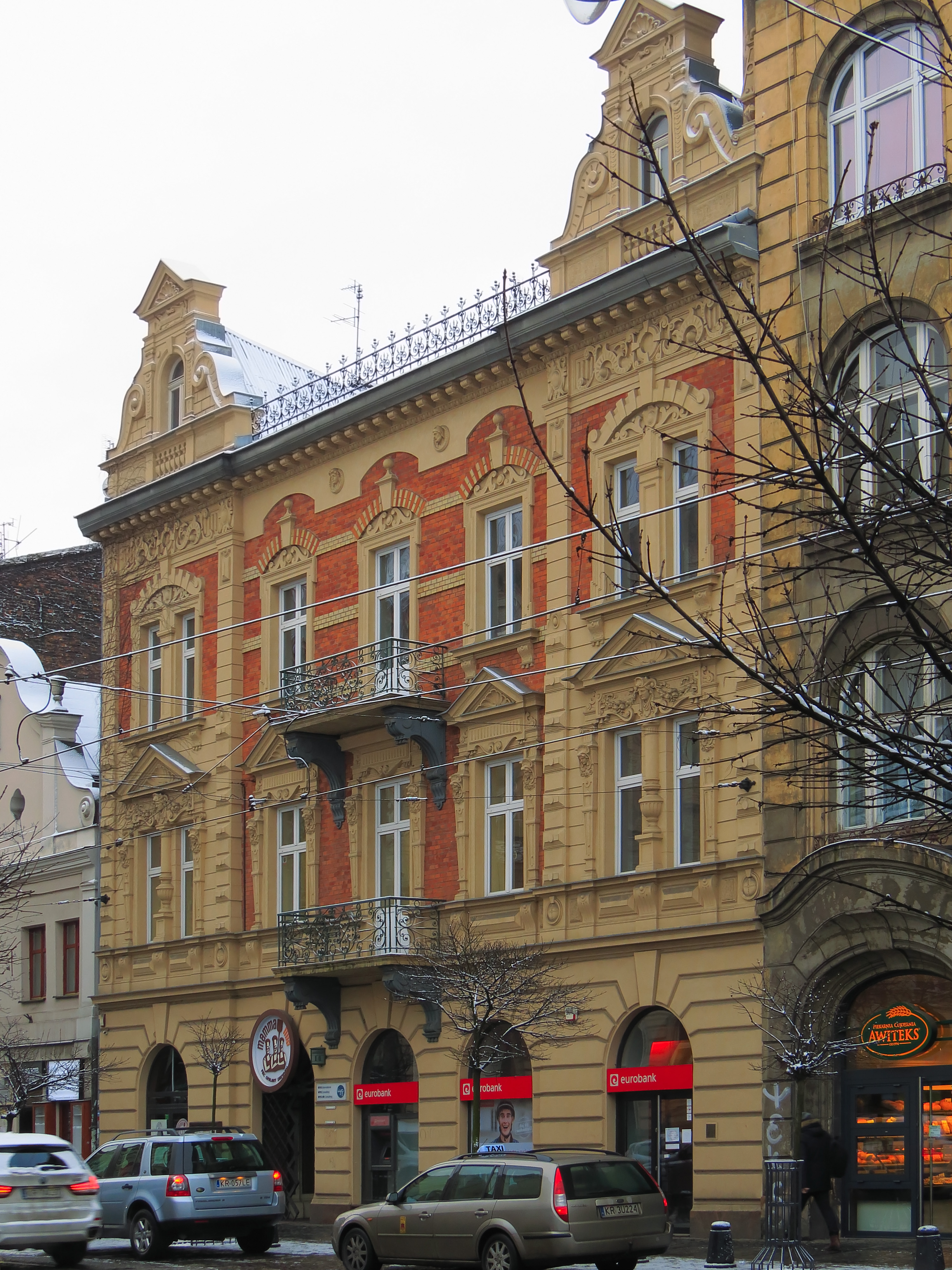 14 Karmelicka street in Kraków